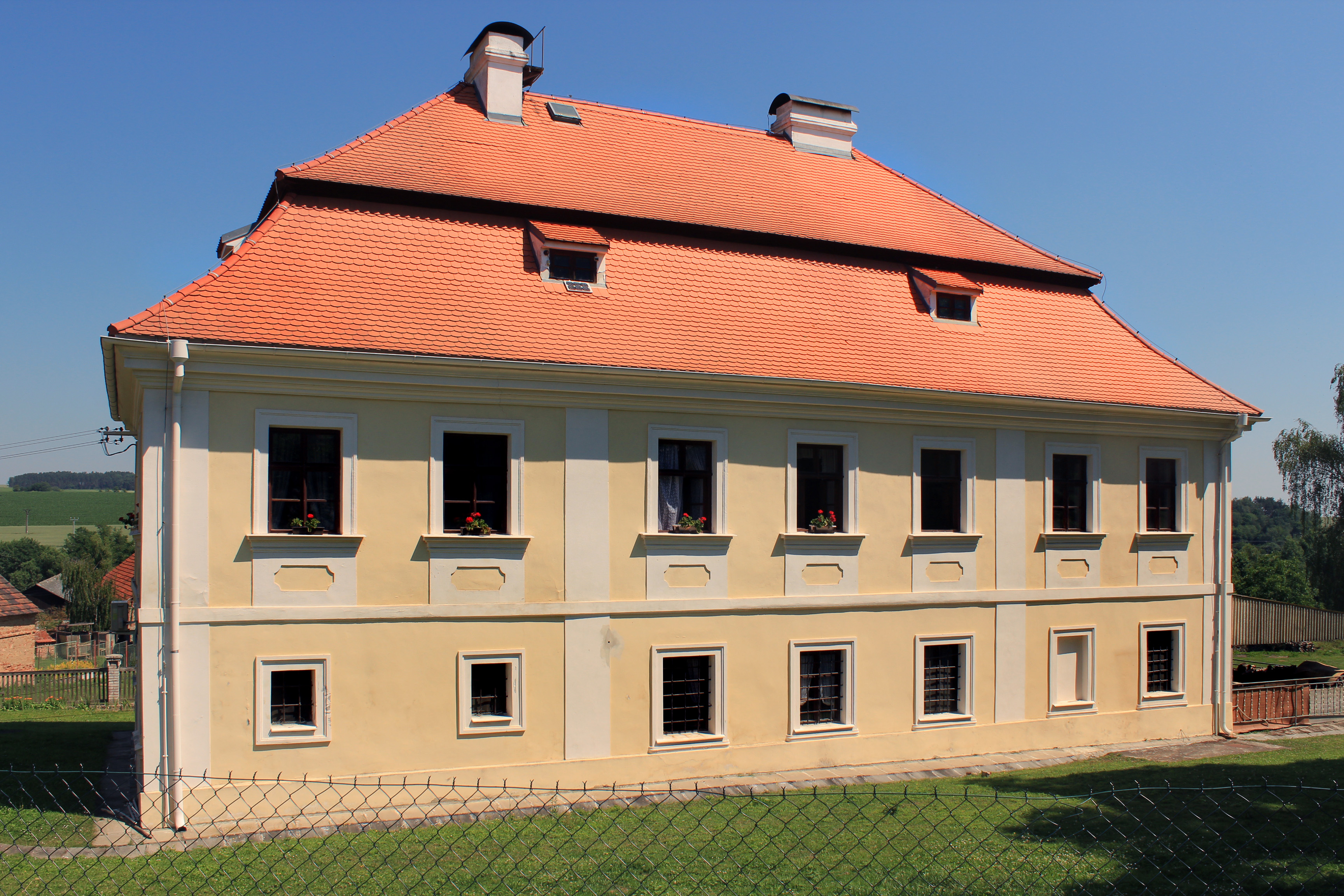 Castle in Bukovec, Czech Republic.